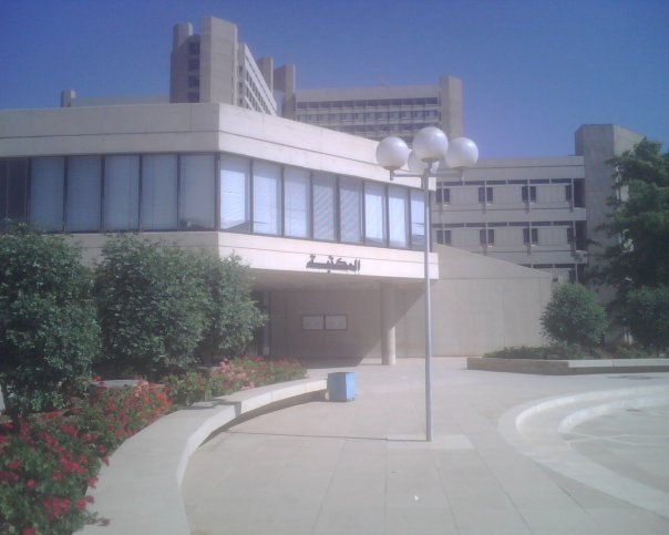 Jordan University of Science and Technology library